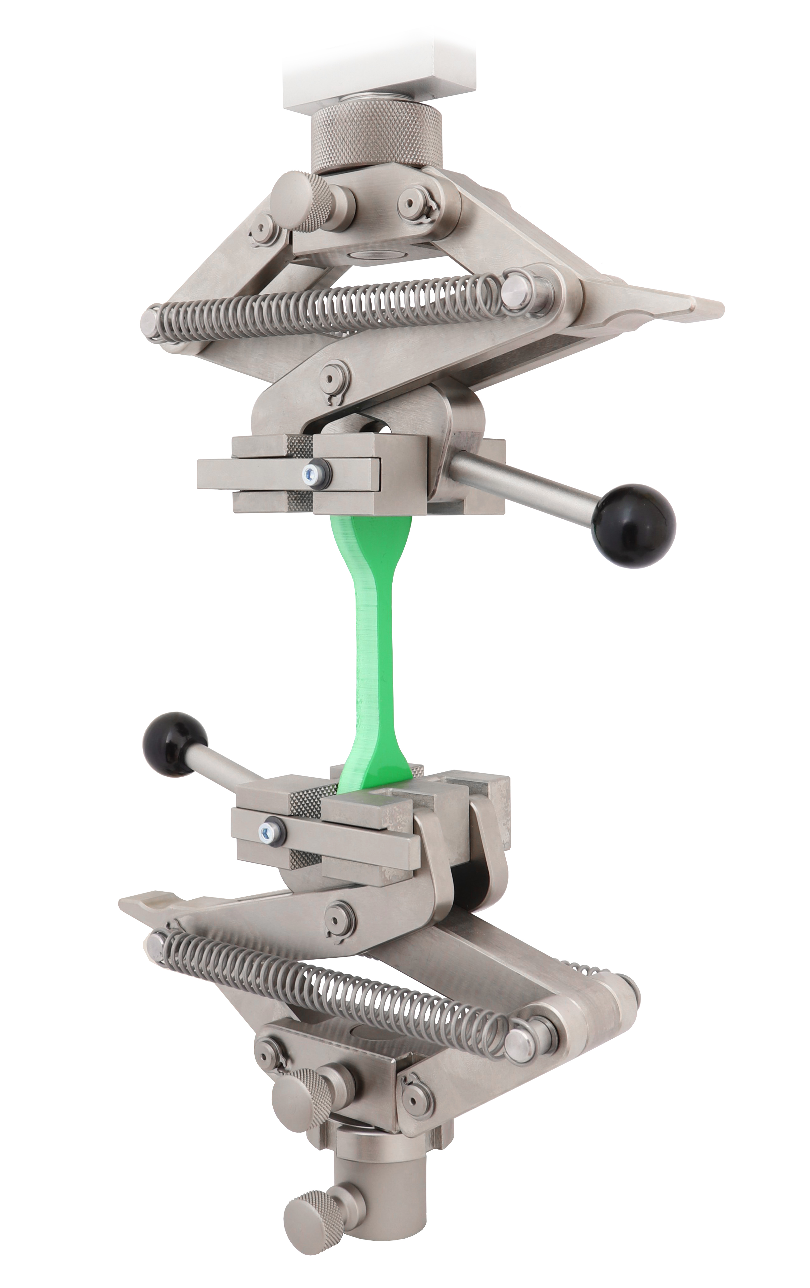 Pincer grip for material testing in tensile tests